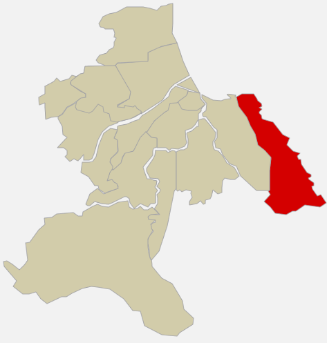 There was Same village in 1929. Now it is part of Hachinohe city.